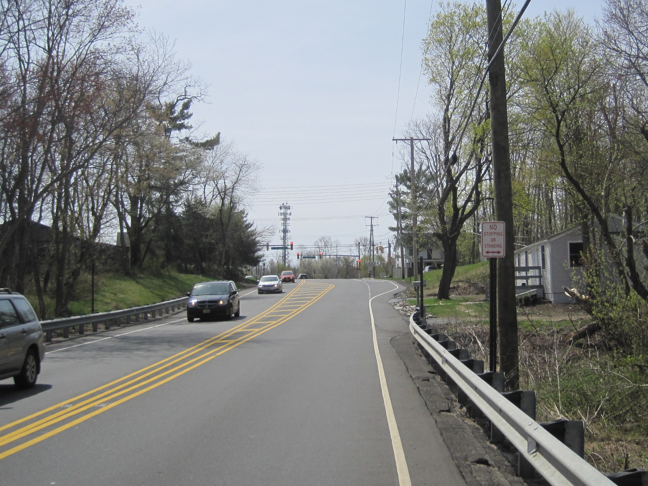 Photo of Smithburg, New Jersey, an unincorporated community located at the tripoint of Manalapan, Millstone, and Freehold townships. Photo taken on southbound County Route 527 approaching County Routes 537 and 524.